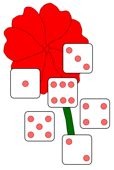 Petal around the rose game